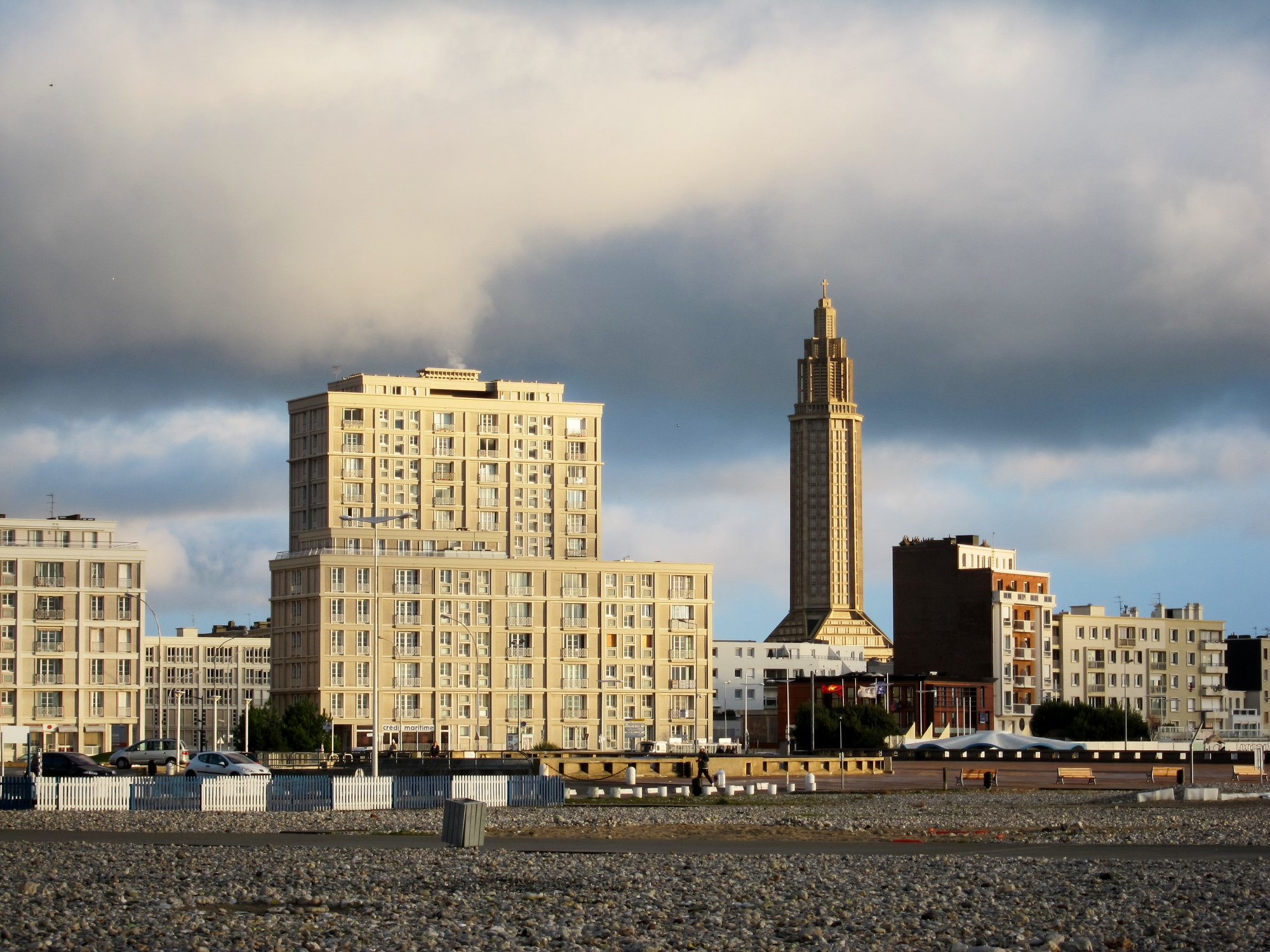 Le Havre from the beach.